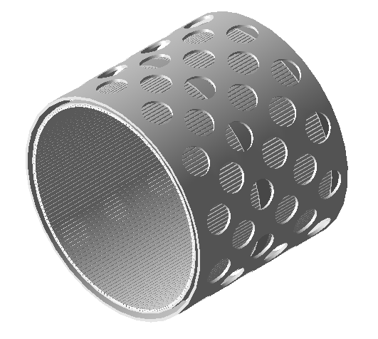 3D rendering of the basket of a pusher centrifuge Author : R. Castelnuovo (myself) 2005 12 08